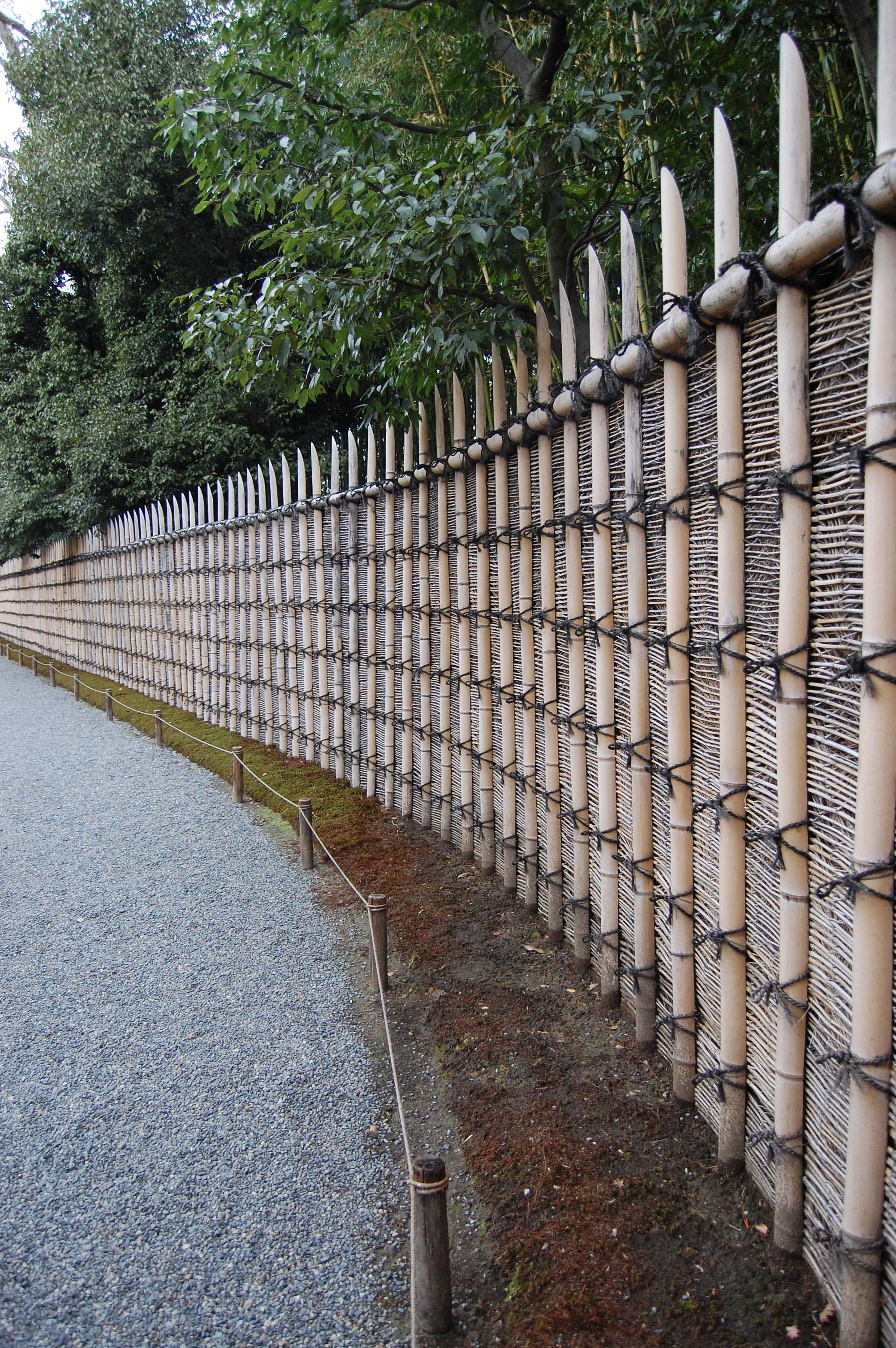 Bamboo fencing exterior wall of the Katsura Imperial Villa — Japan.